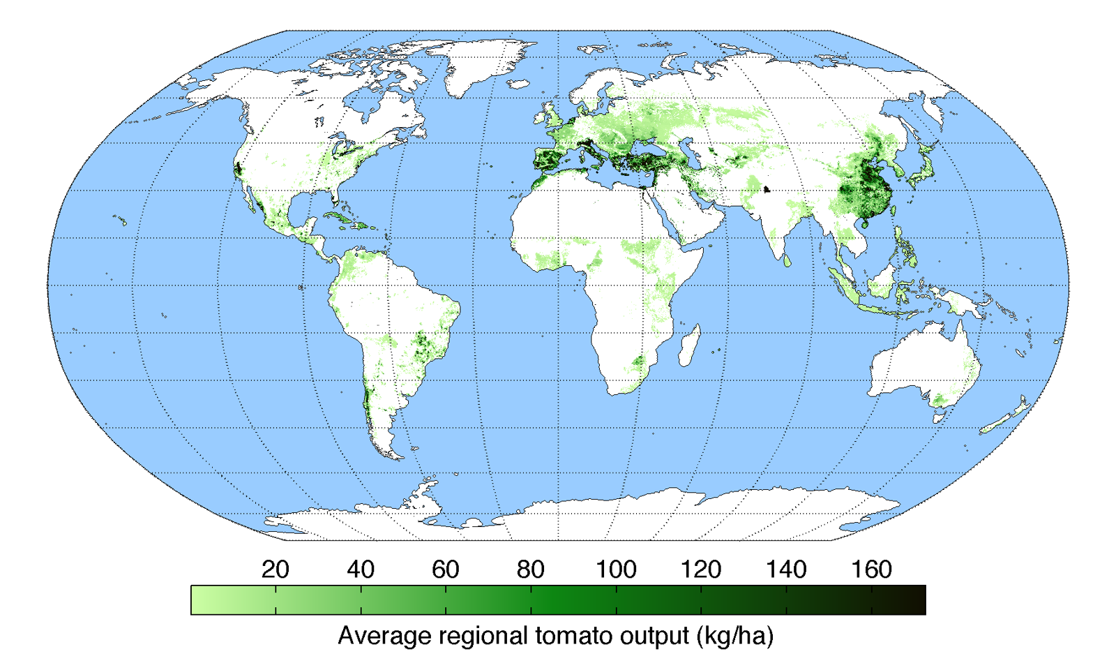 Map of tomato production (average percentage of land used for its production times average yield in each grid cell) across the world compiled by the University of Minnesota Institute on the Environment with data from: Monfreda, C., N. Ramankutty, and J.A. Foley. 2008. Farming the planet: 2. Geographic distribution of crop areas, yields, physiological types, and net primary production in the year 2000. Global Biogeochemical Cycles 22: GB1022